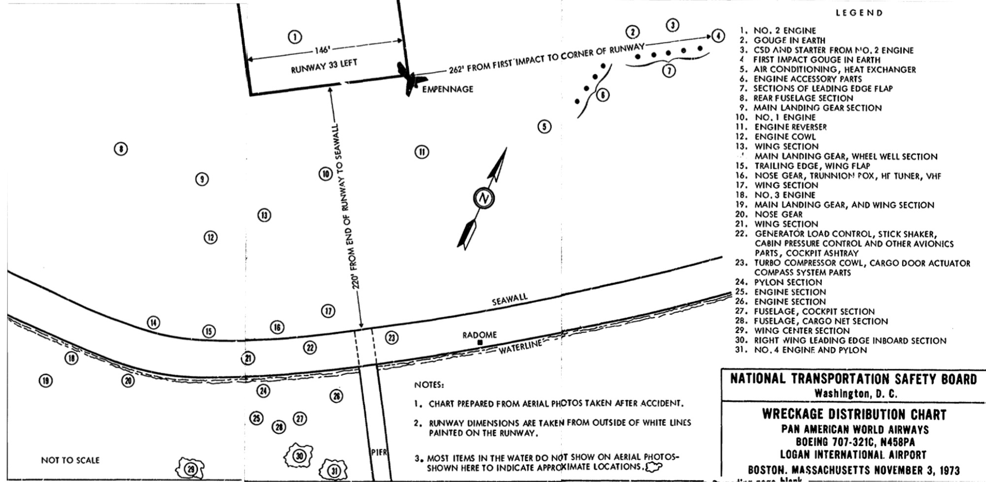 Pan Am Flight 160 crash site map